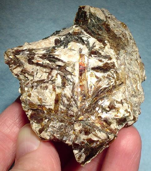 Astrophyllite Locality: Khibiny Massif, Kola Peninsula, Murmanskaja Oblast', Northern Region, Russia (Locality at ) Size: 7.4 x 6.5 x 4.6 cm. A particularly fine and rich astrophyllite specimen from this important locality with lustrous, thick, metallic-foil-like, flat-laying crystals to 2.8 cm embedded in matrix. These bronze-yellow blades have almost a chatoyant look to them. Ex. Elling Collection.